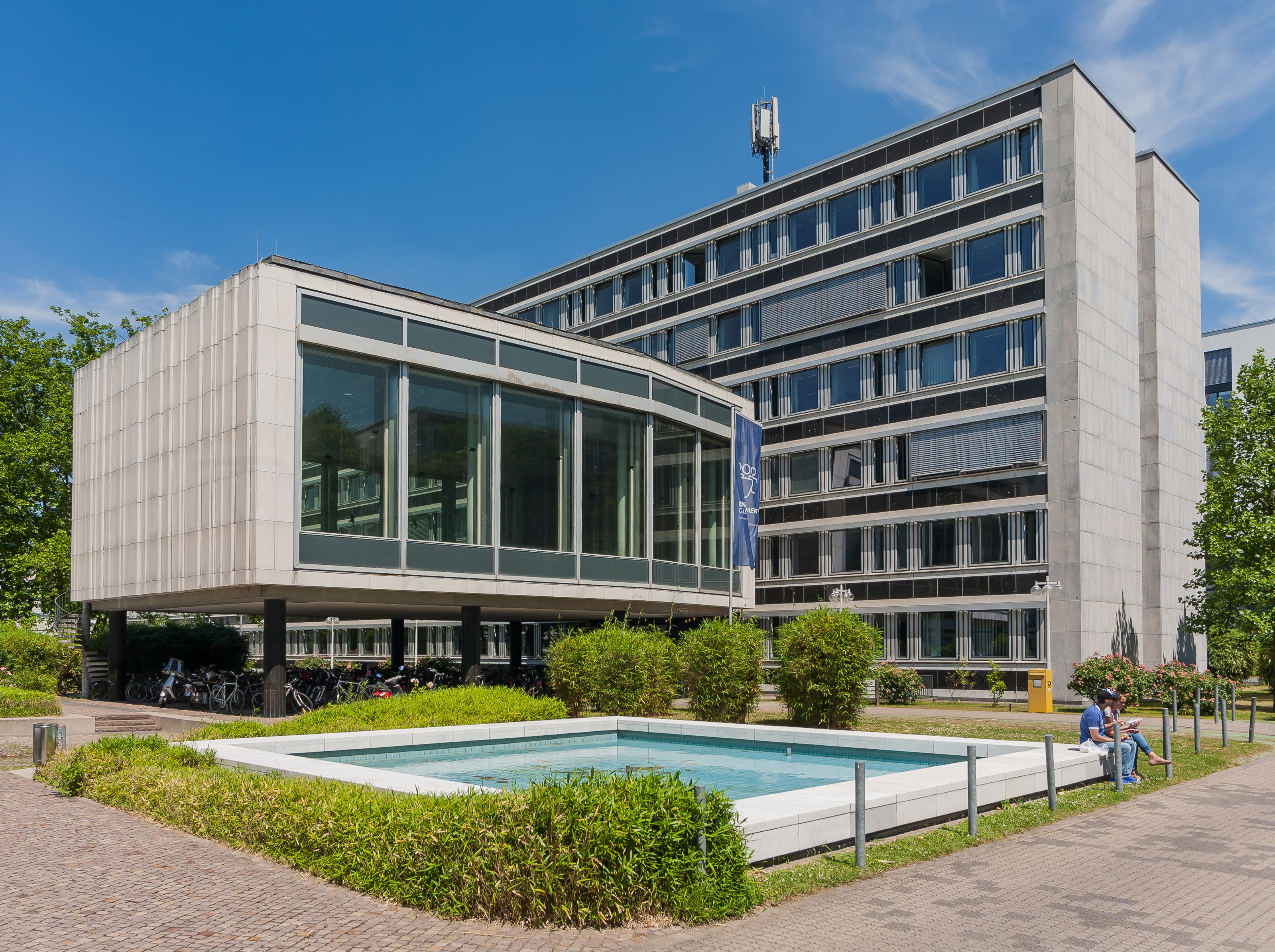 Tulpenfeld 7 in Bonn-Gronau, formerly known as “Press House”, the seat of the Federal Press Conference 1967–1999: view from south